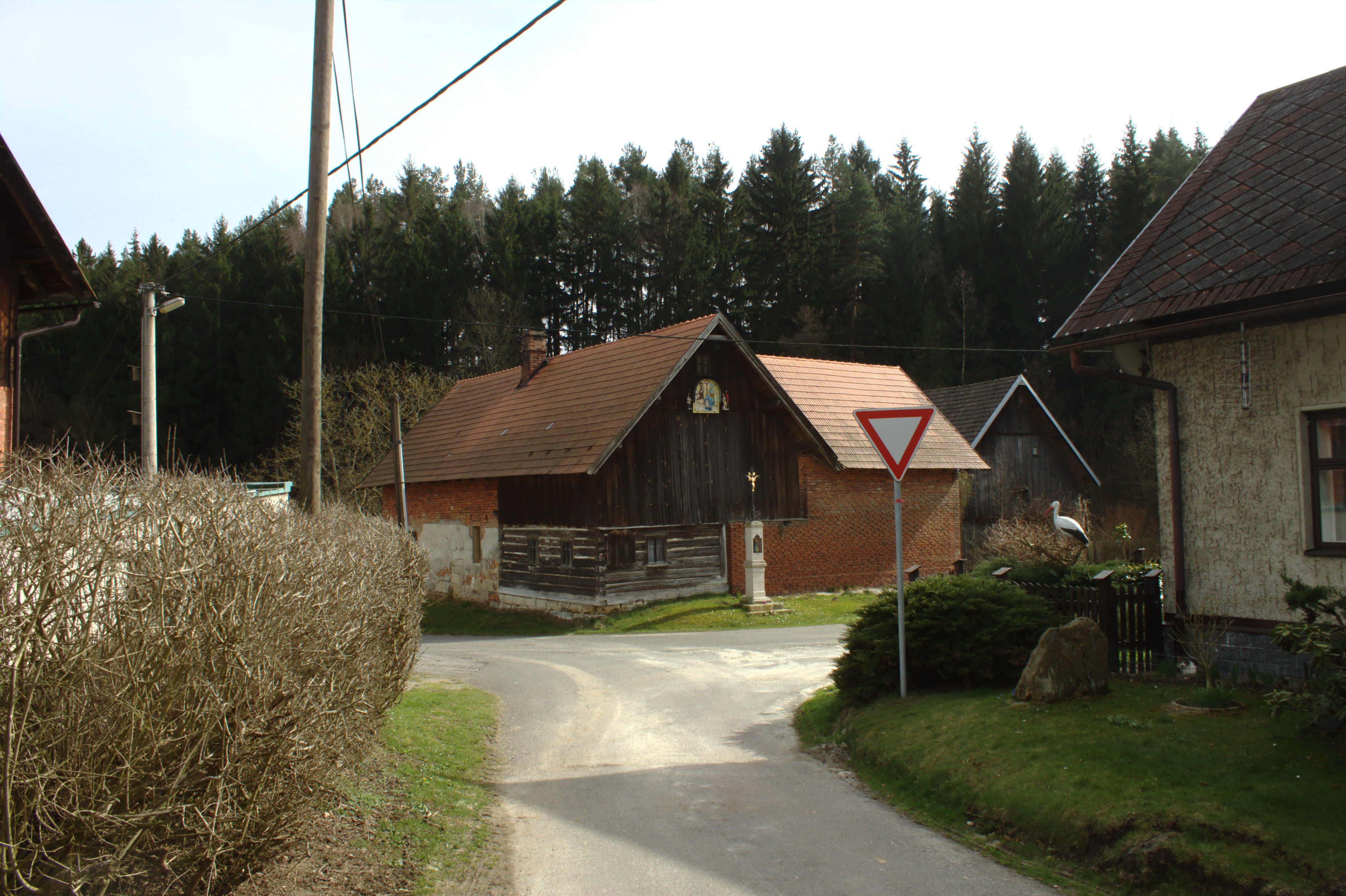 Buildings next to the main common in Sobákov, Liberec Region, CZ